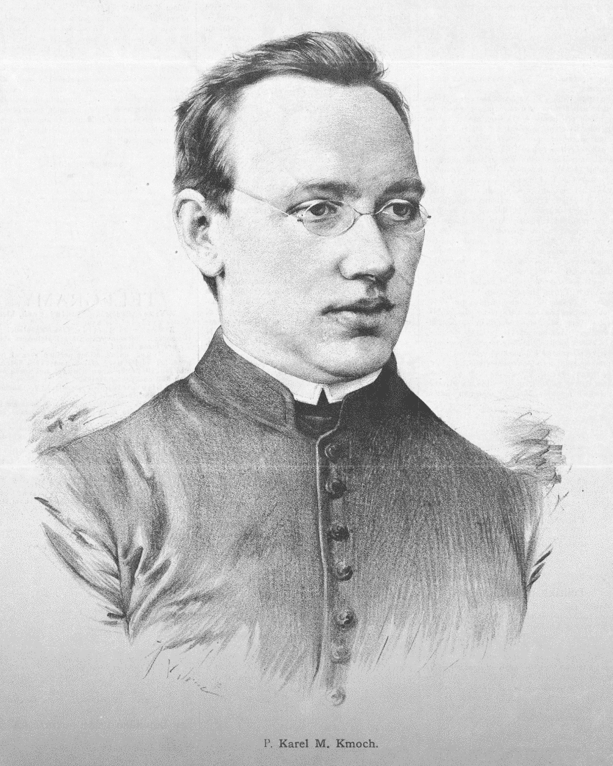 Portrait of Karel M. Kmoch (1839 - 1913), director of institution for education of deaf-dumb children in Prague